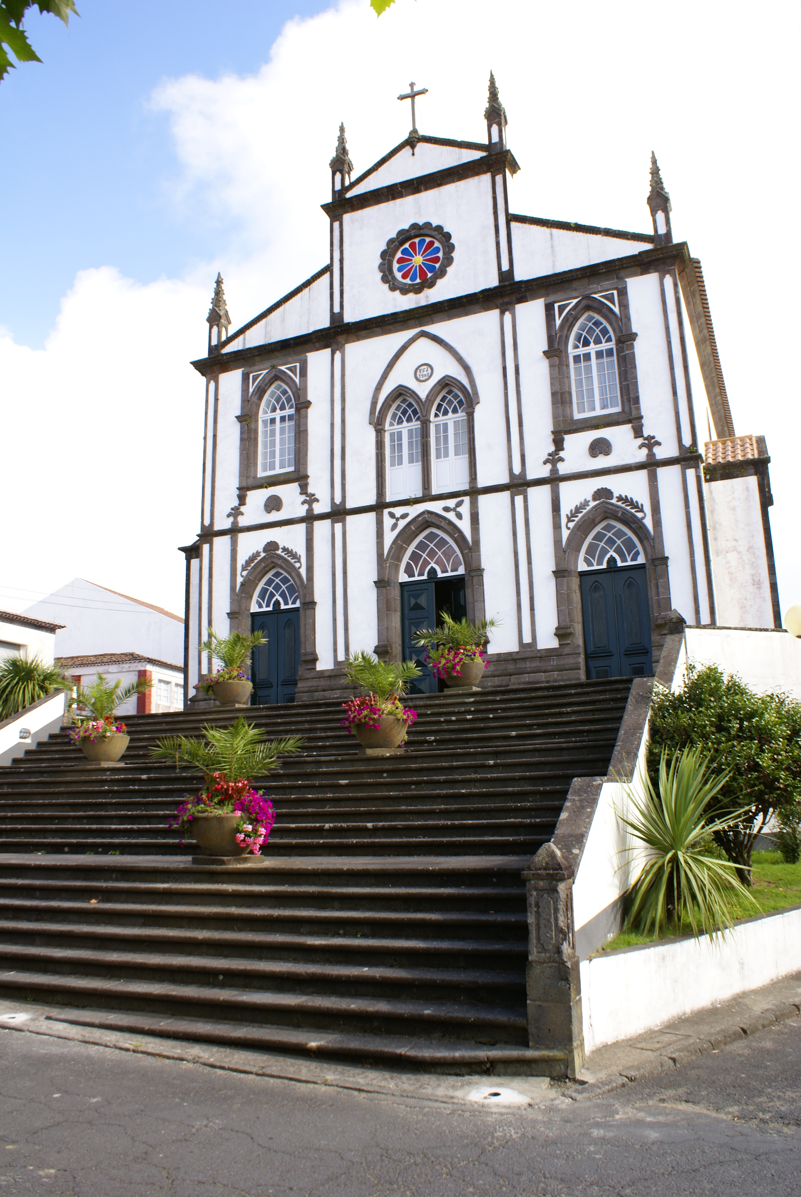 Front facade of the Church of São José, Salga, Nordeste, São Miguel (Azores)